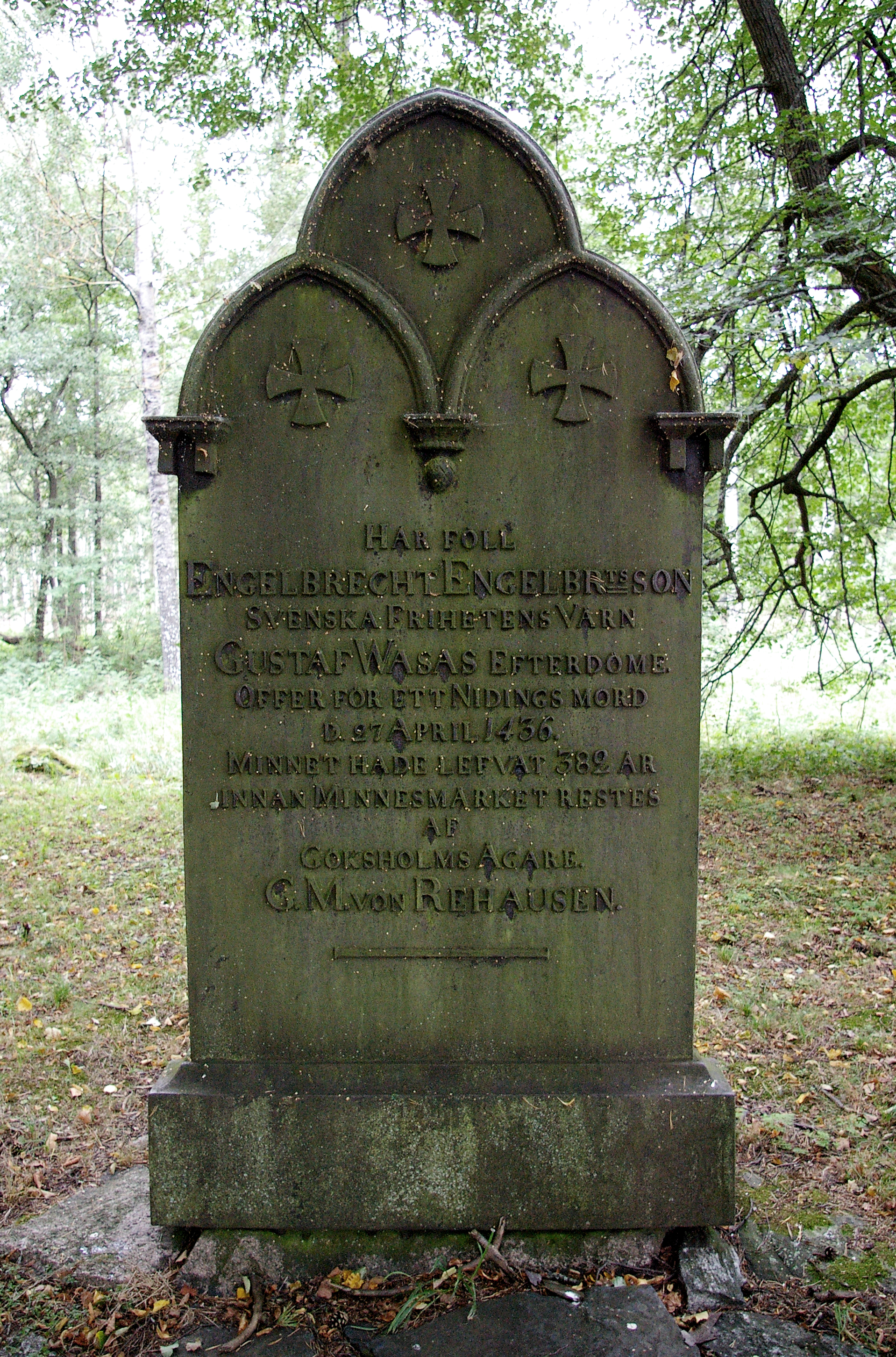 The place of the murder of Engelbrekt Engelbreksson in 1436 near Göksholm, Sweden.